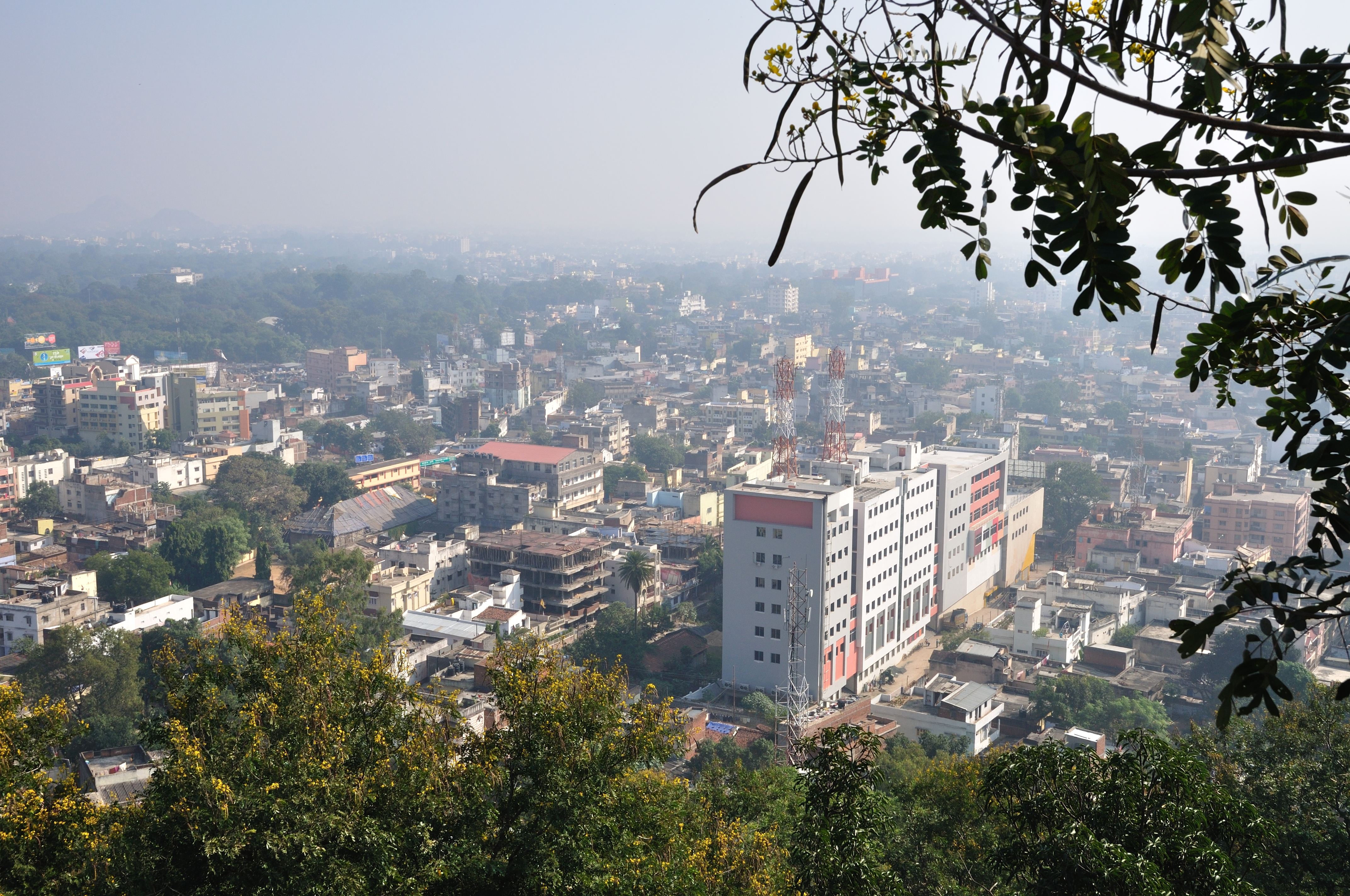 Ranchi is the capital of the Indian state of Jharkhand. This photpgraph has been taken from Ranchi Hill.